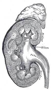 Section of kidney